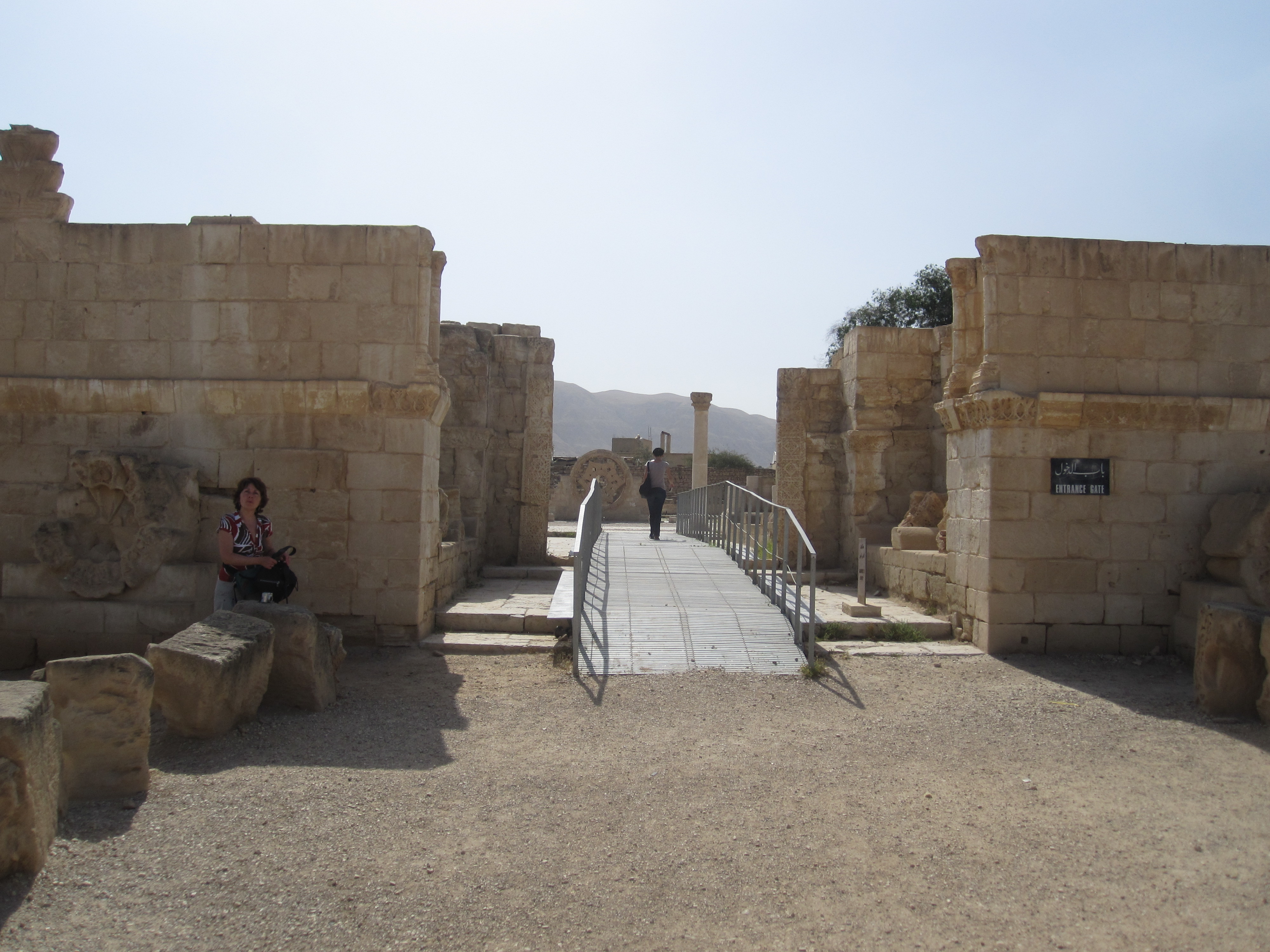 Hisham's Palace walkway, Palestine.